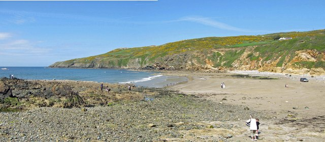 Church Bay